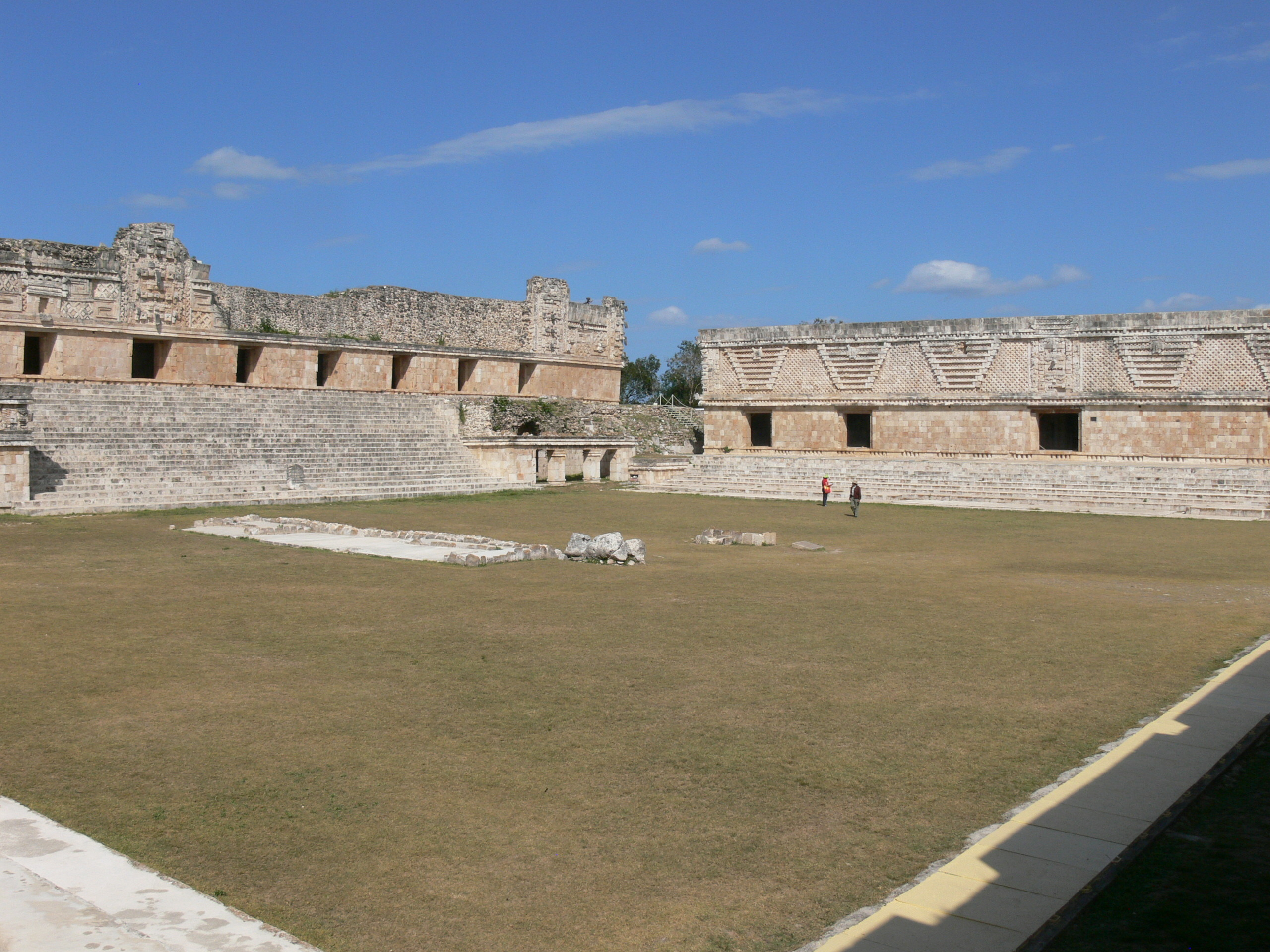 Uxmal ( Yucatan ). Cuadrangulo de las Monjas: Northern and eastern palace.